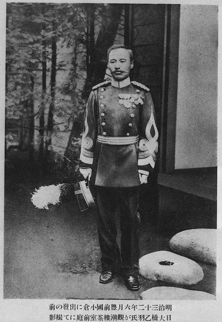 Portrait of Mori Ogai (森鷗外, 1862 – 1922)